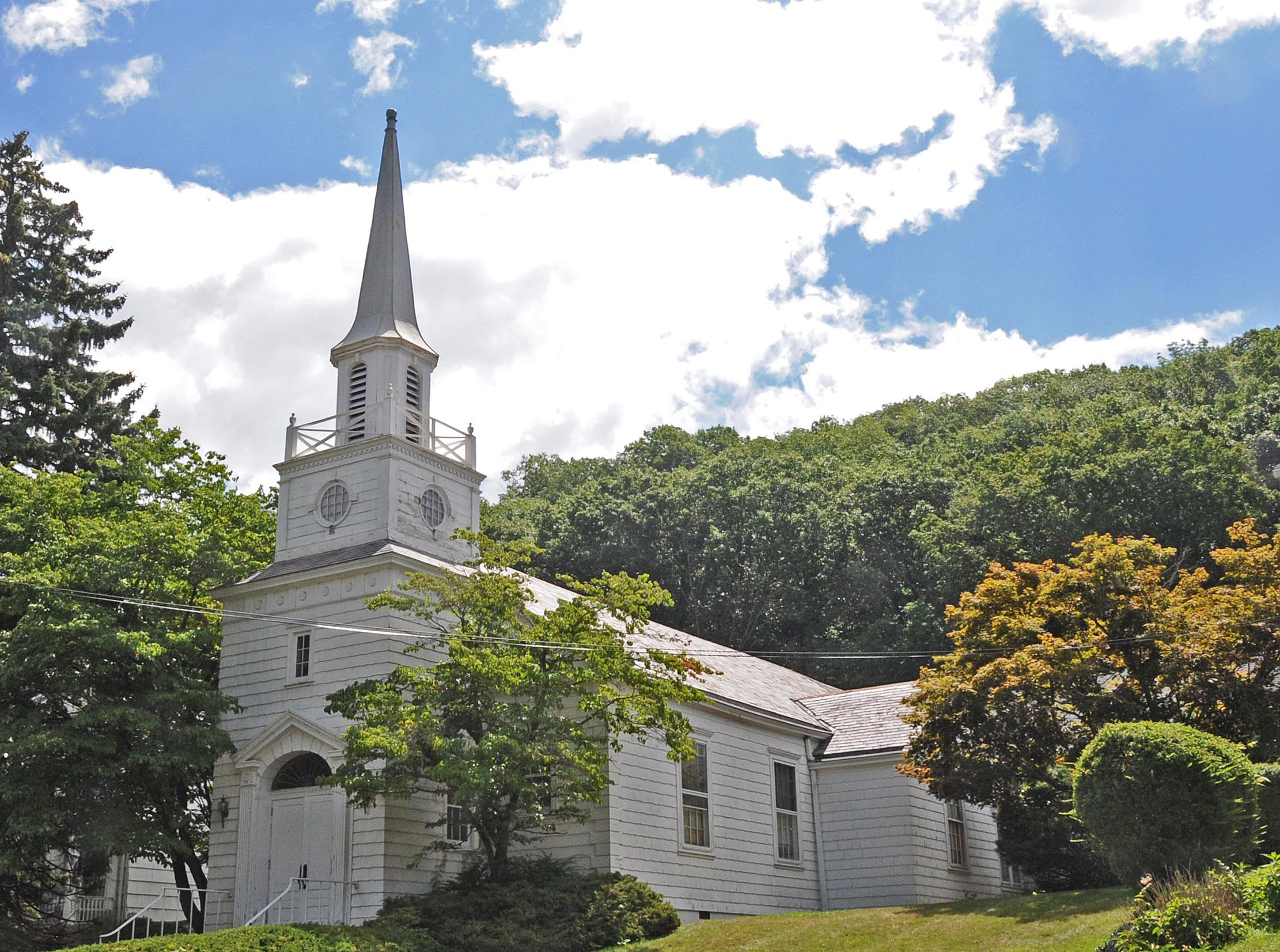 ORGANIZED IN 1839 BUT THIS CHURCH WAS BUILT IN 1946 IN THE WREN-GIBBS COLONIAL REVIVAL STYLE. IT IS HOME TO THE OLDEST CONGREGATION IN PIERMONT